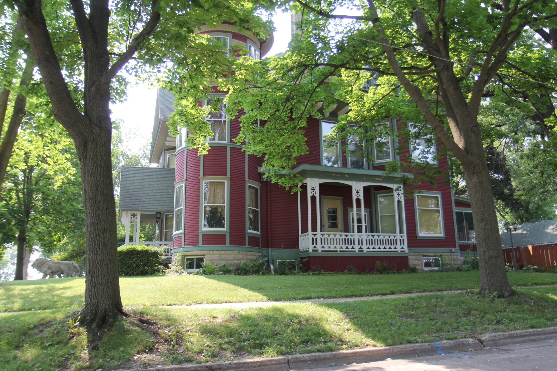 The side of the Swan House and Vita Spring Pavilion in Beaver Dam, Wisconsin. It is listed on the National Register of Historic Places.